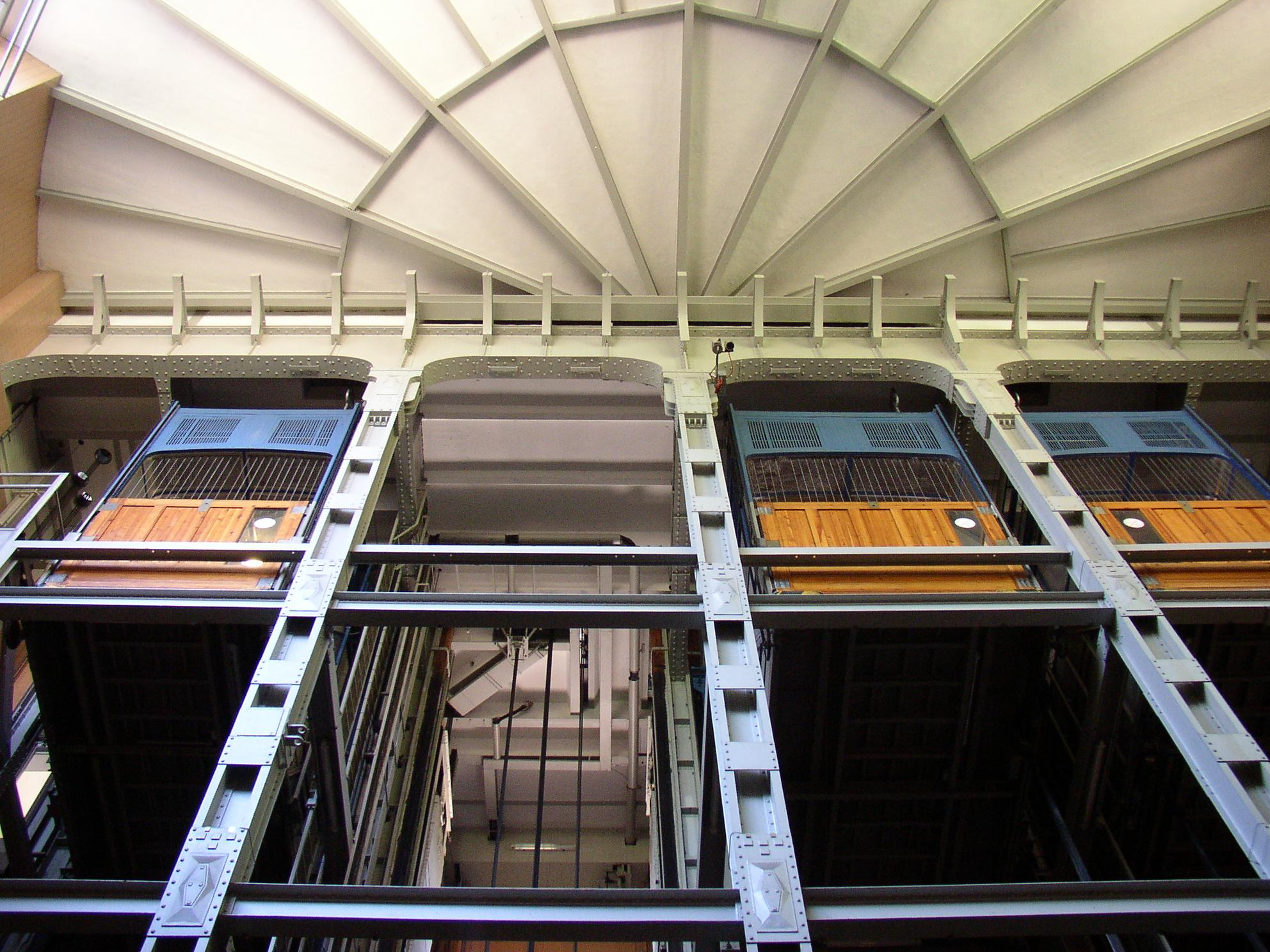 Vehicle elevators in the Old Elbe Tunnel in Hamburg-Steinwerder, Germany